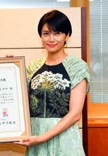 Kō Shibasaki, President of the Les Trois Graces Inc., received the Letter of Appointment as the Goodwill Ambassador for the Environment from Hiroyoshi Sasagawa, Parliamentary Secretary of the Environment, at the Central Government Building No.5 in Chiyoda Ward, Tōkyō Metropolis on July 6, 2018.